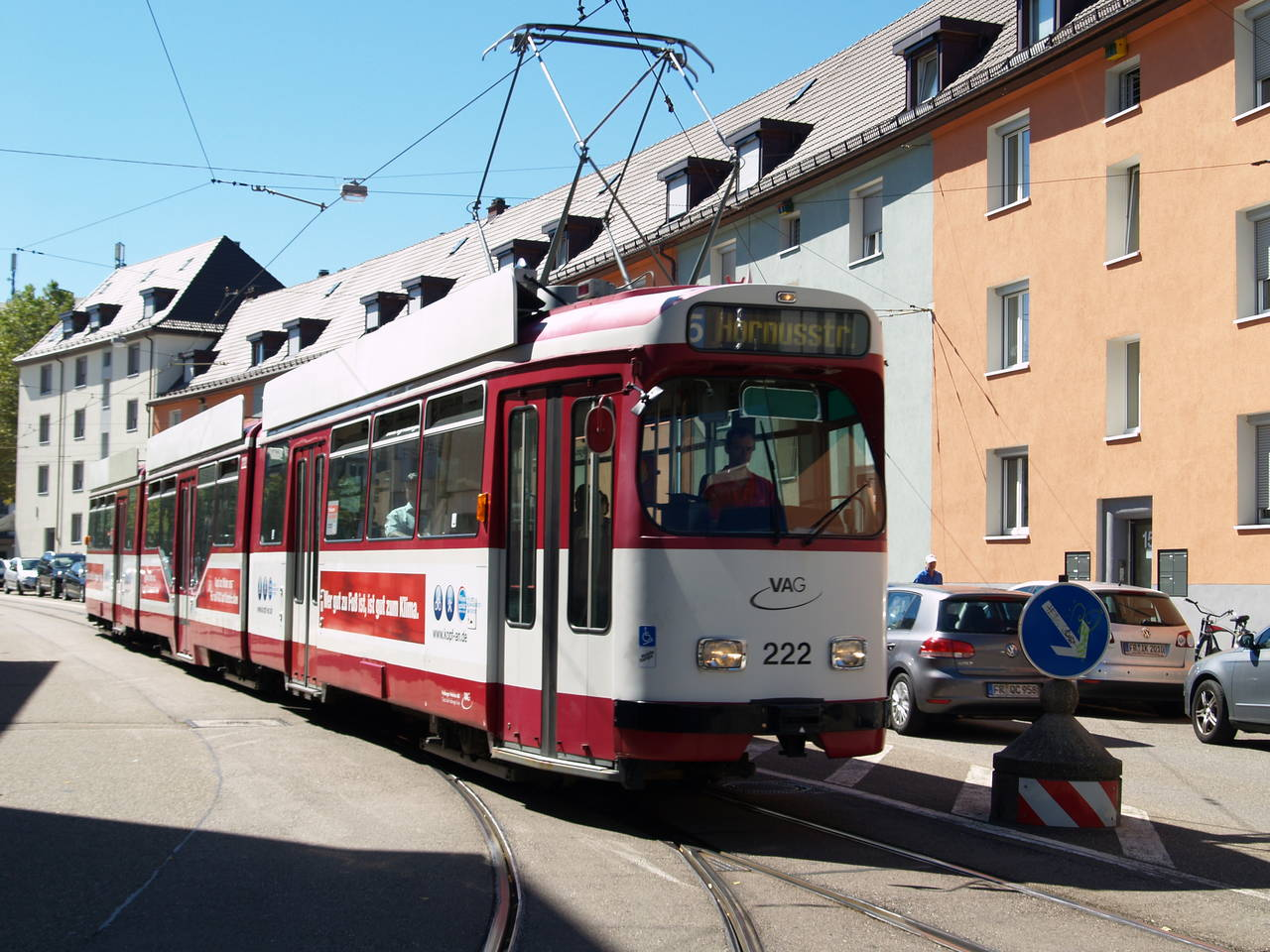 On this picture you see GT8N 222 of VAG Freiburg at the final stop Hornusstraße of the line 5.